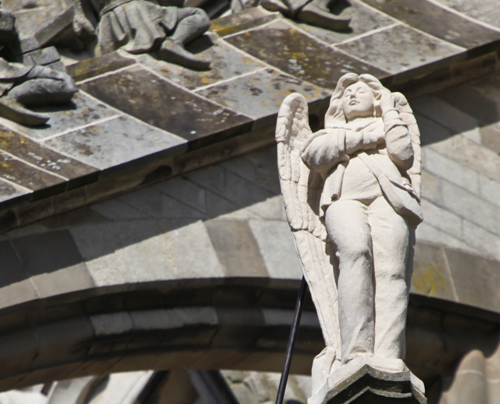 Statue of the angel with mobile phone recently installed at the St. John's Cathedral in 's-Hertogenbosch